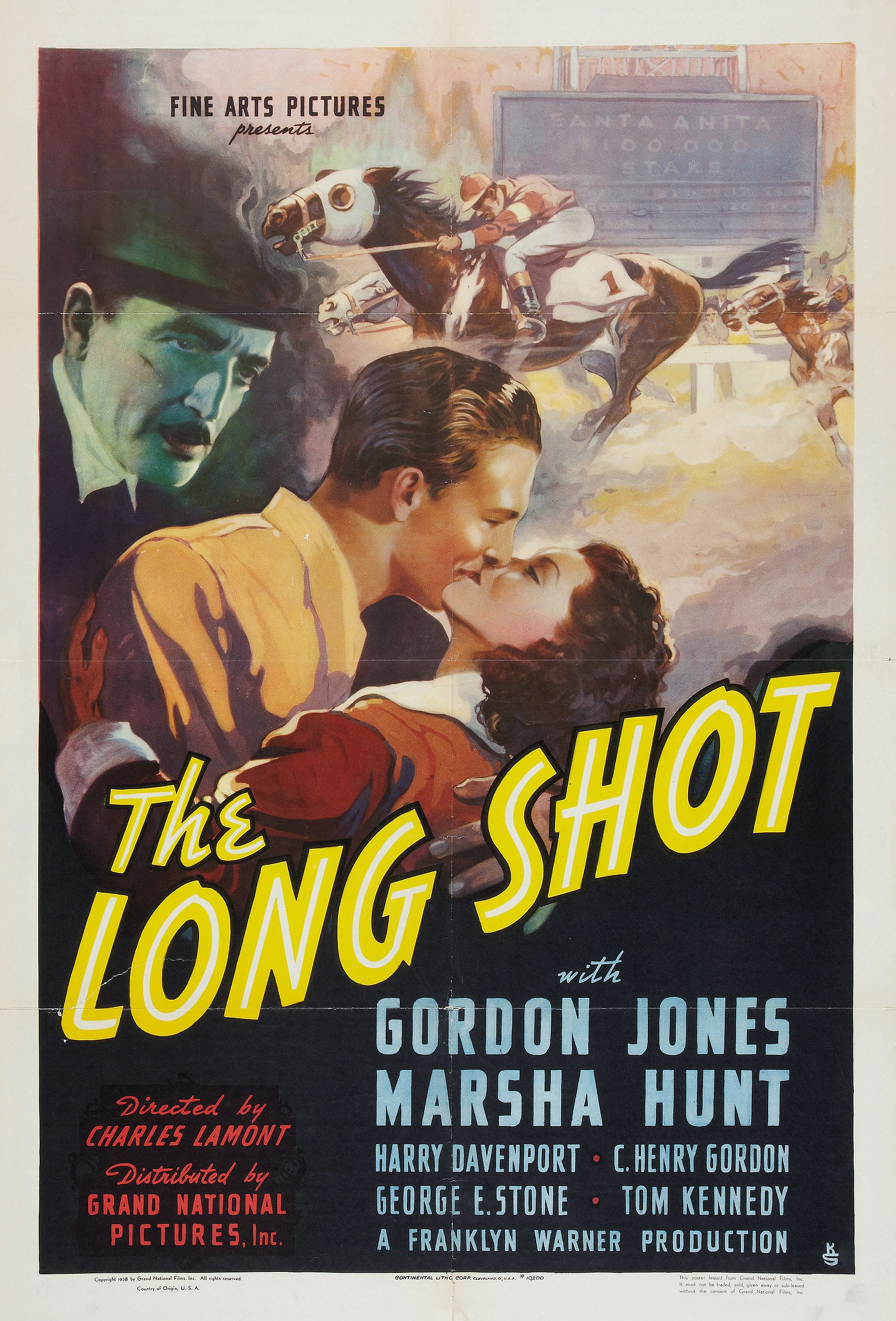 Poster for the American film Long Shot (1939) (presented here as The Long Shot)